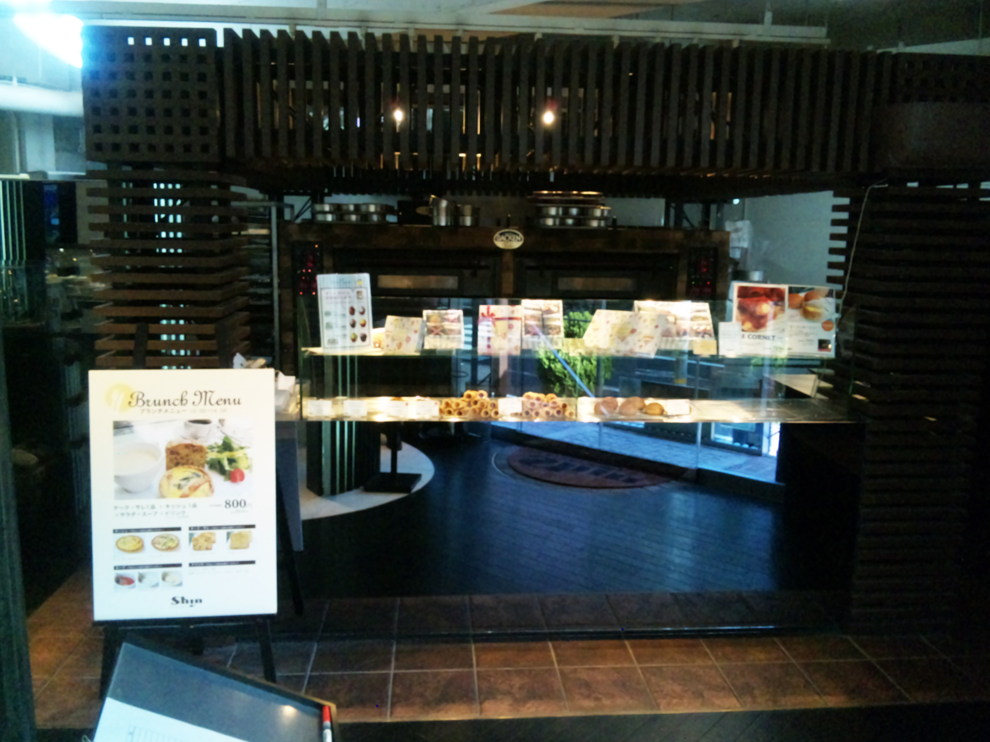 2015-04-11 Sincerus Co., Ltd Gaikan Tennai 2